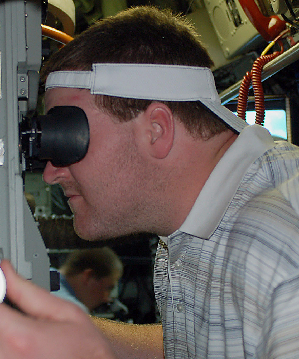 New England Patriots offensive guard Logan Mankins takes a look around Naval Station Pearl Harbor through the periscope of the nuclear-powered attack submarine USS Los Angeles. Mankins and Philadelphia Eagles offensive guard Shawn Andrews and Dallas Cowboys linebacker DeMarcus Ware took time from their Pro Bowl activities to tour the submarine and visit and sign autographs for Los Angeles Sailors.